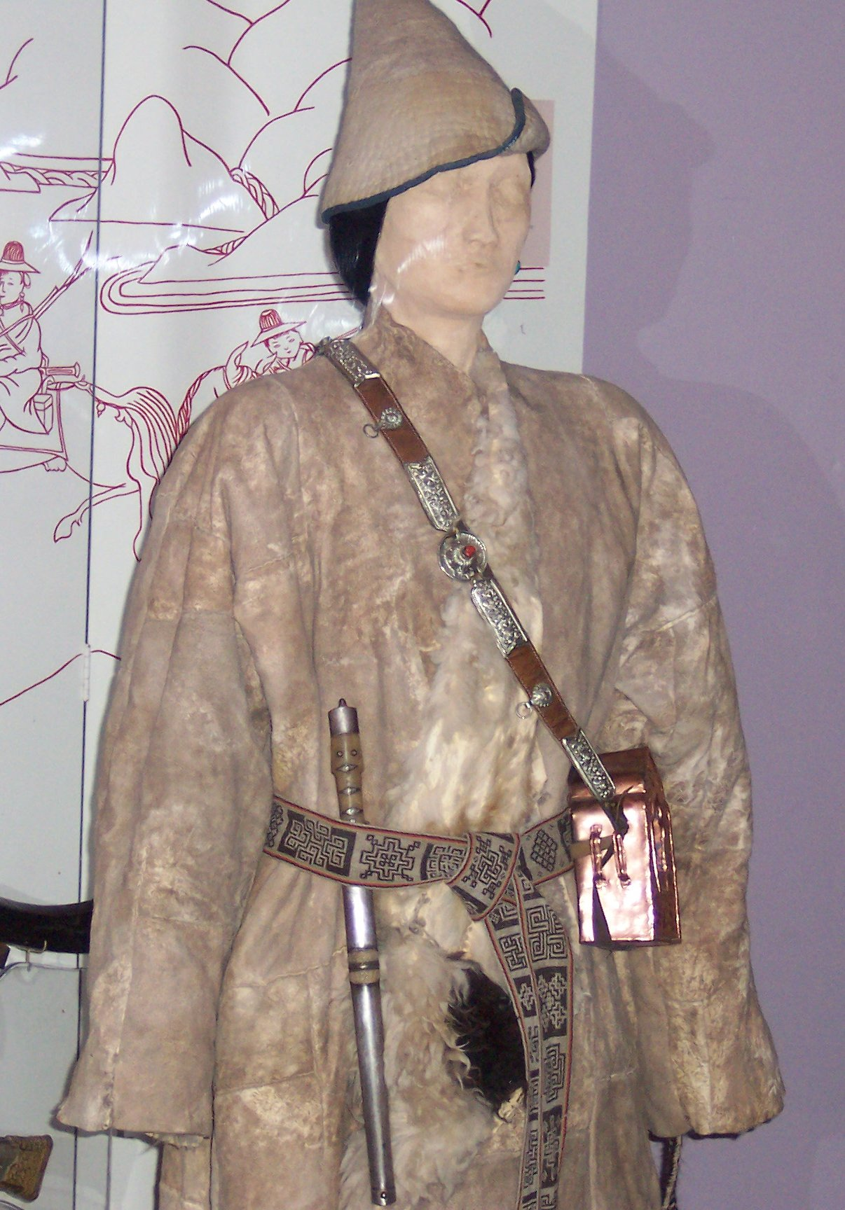 Tibetan herdsman's coat, sheepskin, the hair inside. A portable shrine for worship is carried over the shoulder on a strap, Field Museum. Cropped Version.